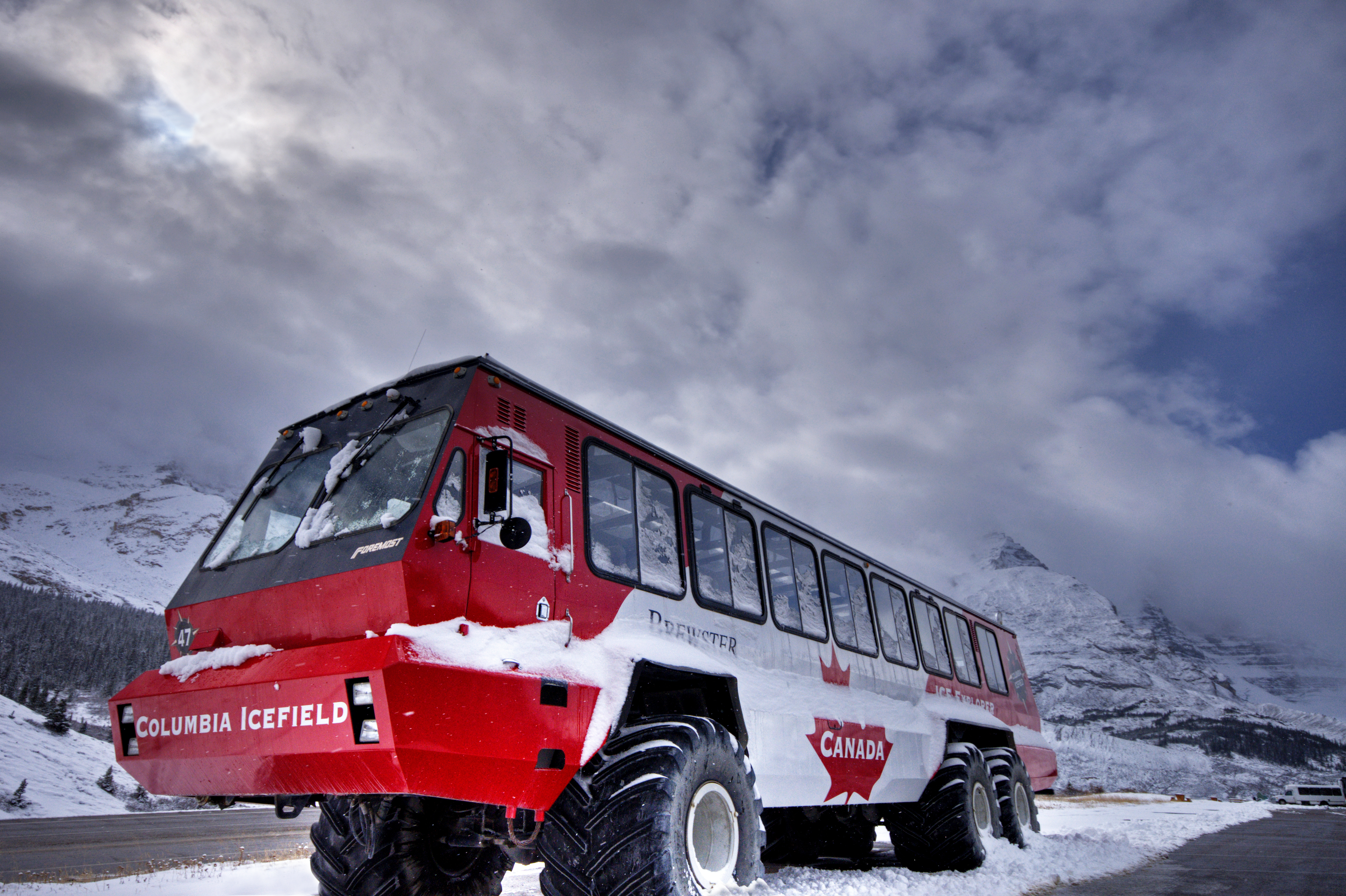 A Terra Bus near the Columbia Icefield in Canada.